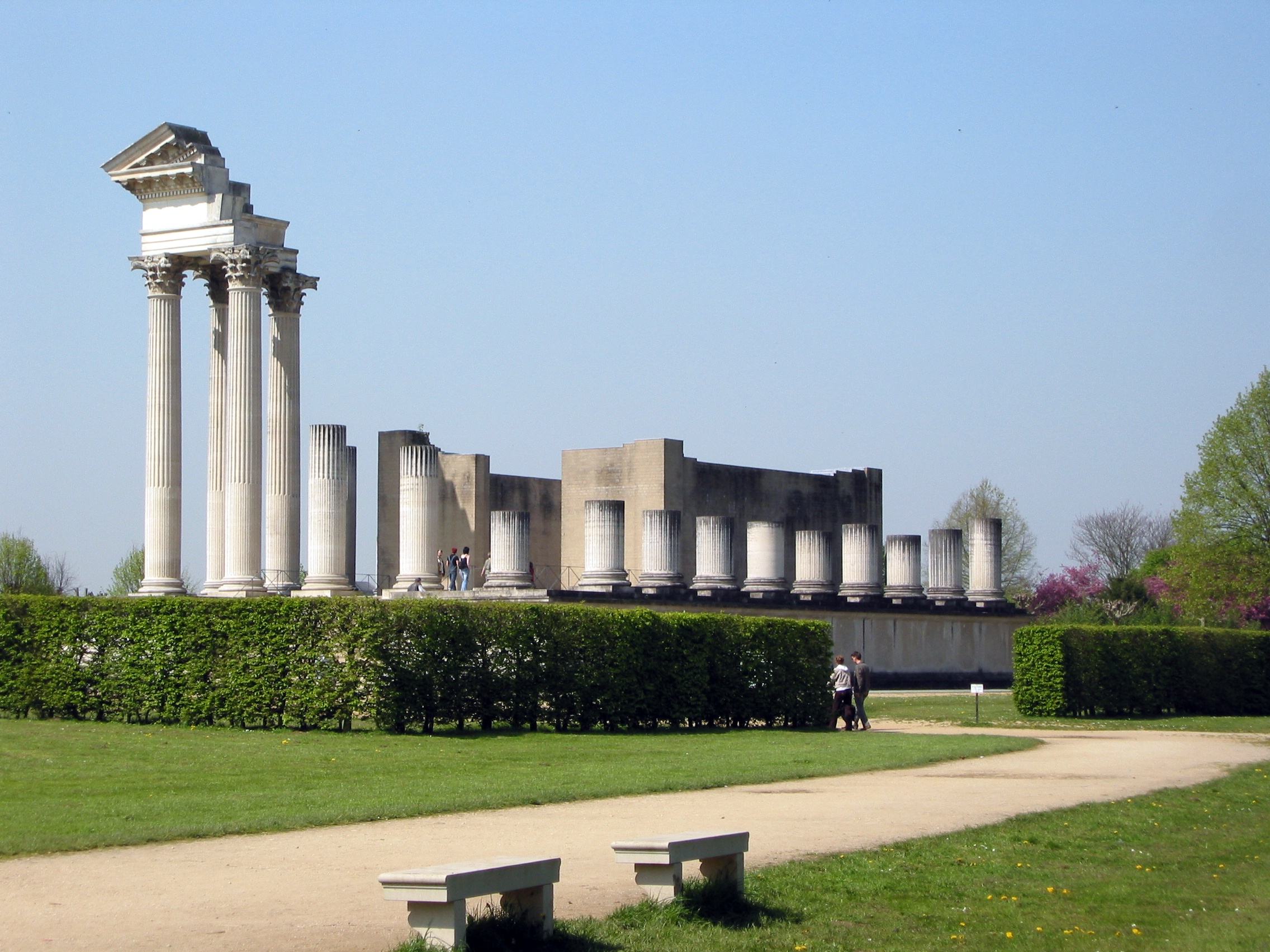 "Harbor temple" in the archaeological park in Xanten, Germany. The Roman archaeological site having been used as a quarry for centuries, this temple is in a large part a modern reconstruction. Photo taken April 23, 2005, by Magnus Manske, with expressed verbal permission. Colors/contrast enhanced with Picasa.